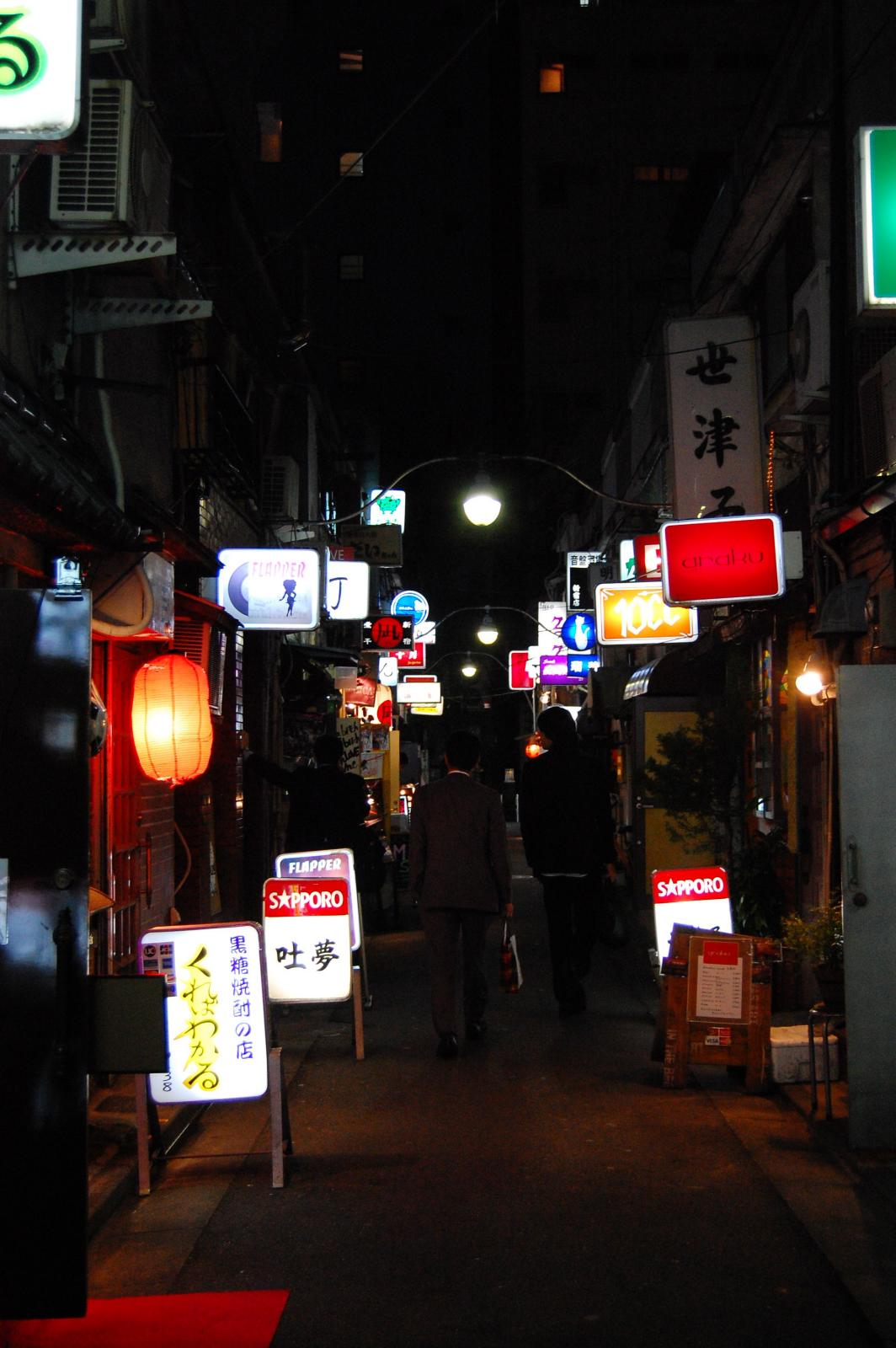 G2 Street is located in Shinjuku Ward, Tōkyō Metropolis.